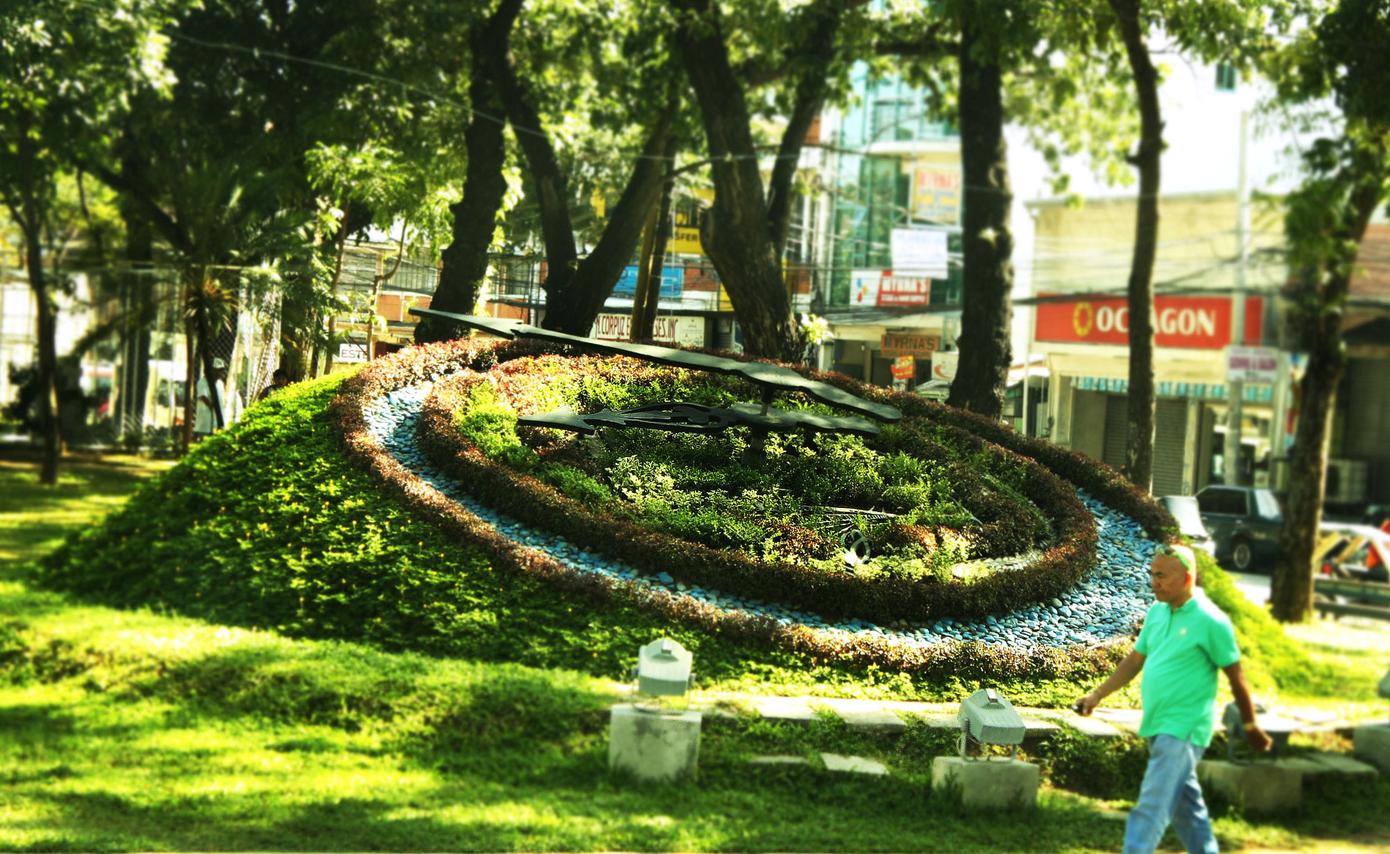 a man hurries to find his way home, gladly there's a huge clock showing him what's the time. Laoag, Ilocos Norte